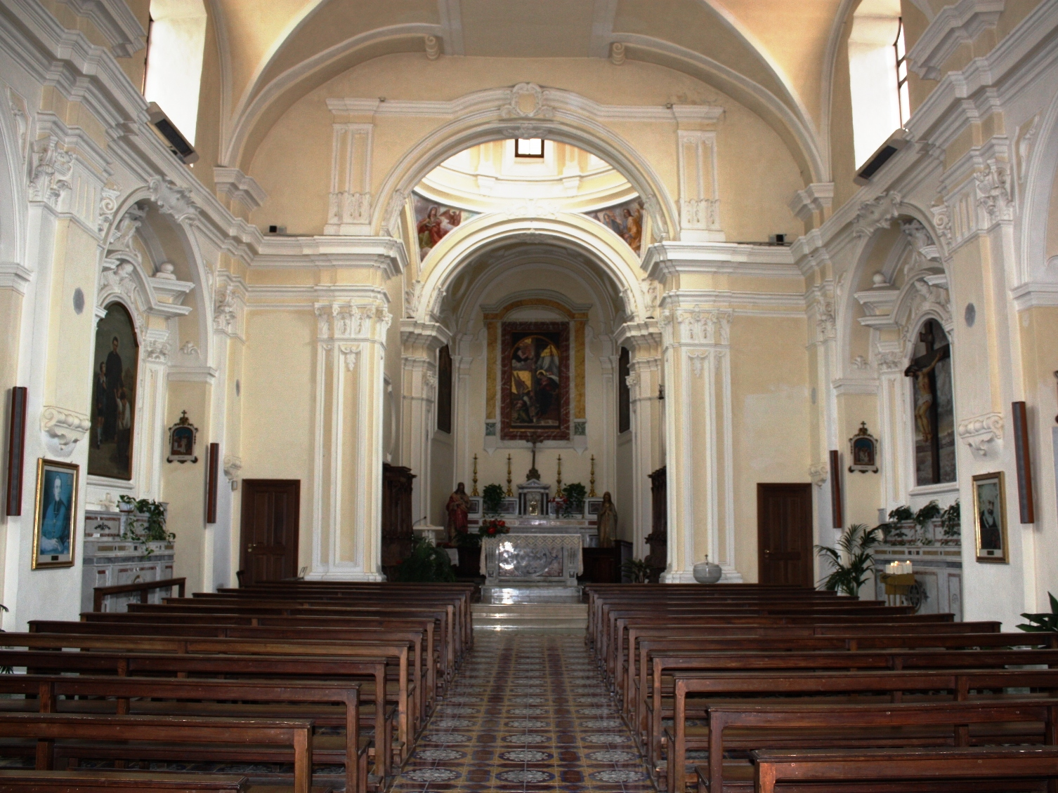 Church in Maratea.